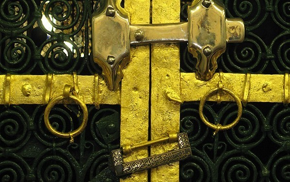 The door of Fatimah's House